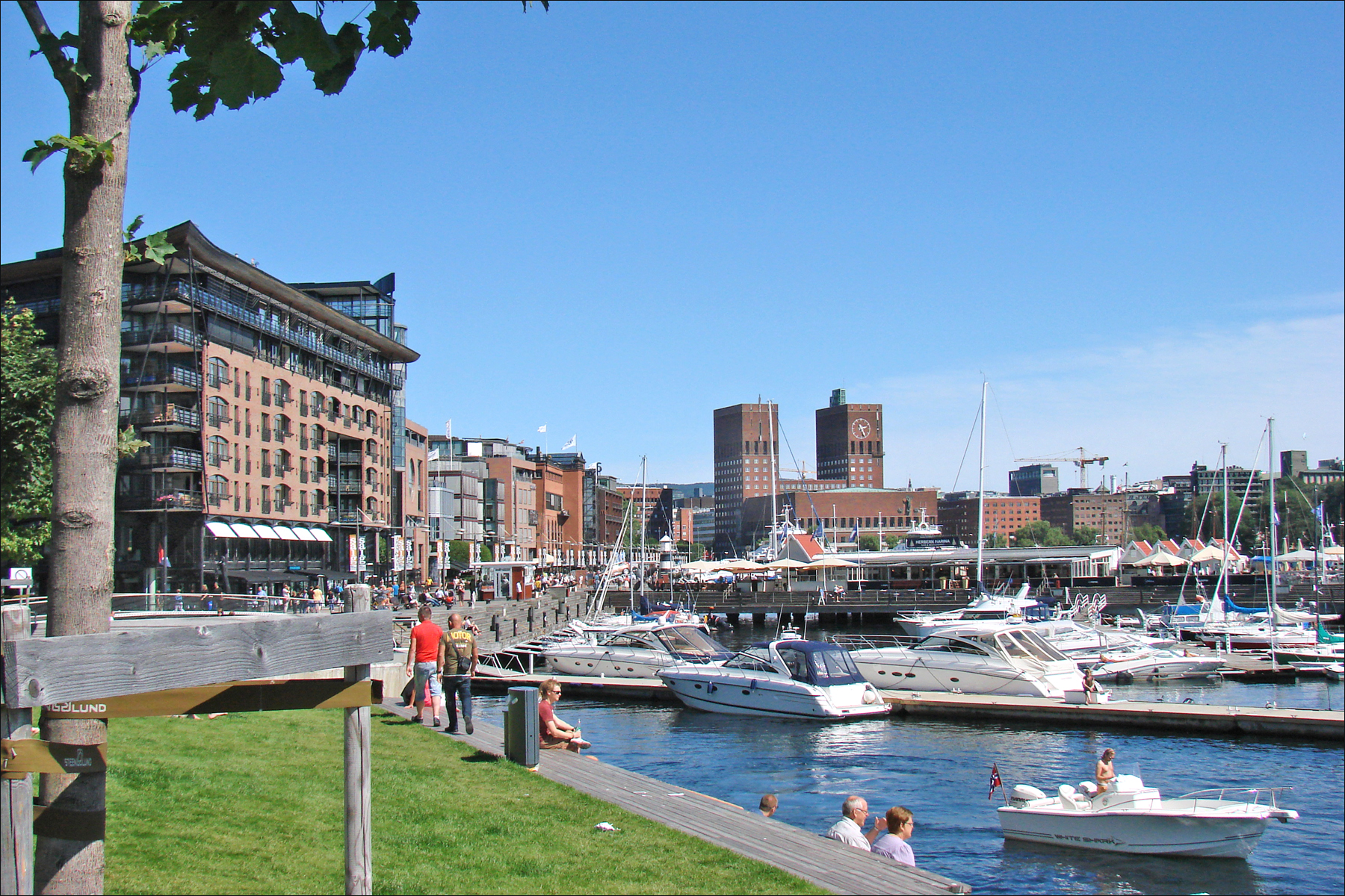 The photo is taken from the outermost tip of Aker (Harbor) Brygge. Aker Brygge always have and still is the main shopping district of the City of Oslo. Bjørvika, situated on the southeast side of the city is expected by some to become the new main shopping district in the city after the new district is expected finished in 2020. The two districts are both expanding rapidly. Tjuvholmen, an artificial island with apartments and the new Astrup Fearnley museum is one of the great projects of importance in Aker Brygge. Aker Brygge is known for it's seafood, numerous restaurants, shops and so on. The district is considered among some of the citizens to be a place where only some people can afford to live. The harbor is situated close to the City Hall and even closer to the Nobel Peace Prize Center and the upcoming, new National Museum north of the Center.